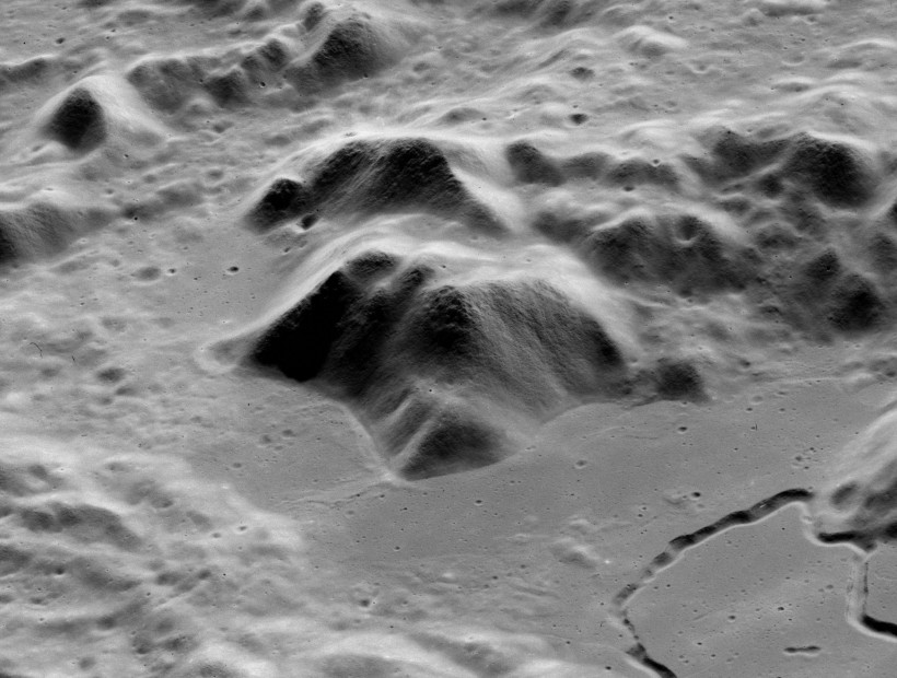 Oblique view of Mons Hadley of the Montes Apenninus, including Hadley Rille (lower right), and the Apollo 15 landing site, facing east from an altitude of 105 km, on revolution 34 of the Apollo 15 mission.